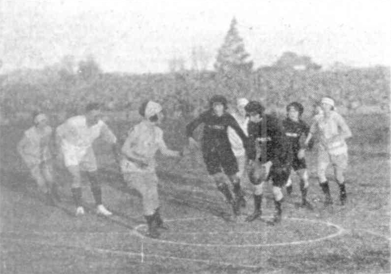 Photo of the women footballers at Adelaide Oval during an exhibition match which attracted 41,000 spectators.